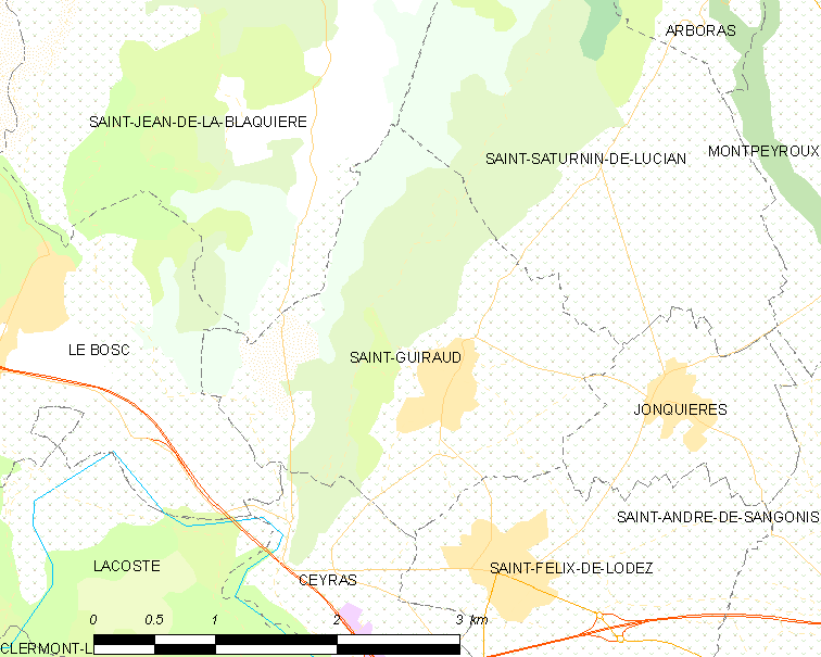 Map commune FR insee code 34262.png - Saint-Guiraud